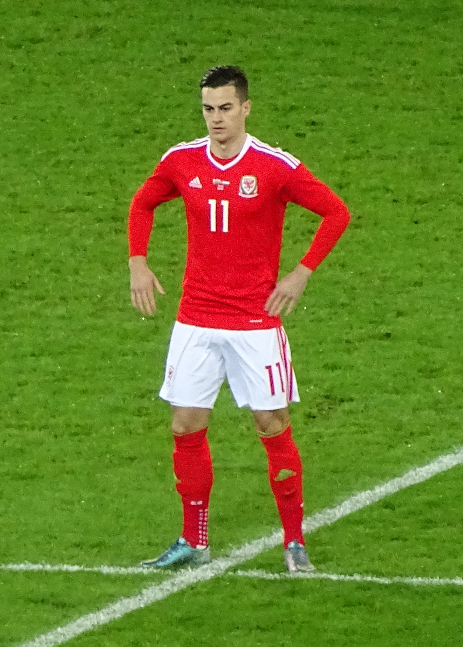 Footballer Tom Lawrence playing for Wales.